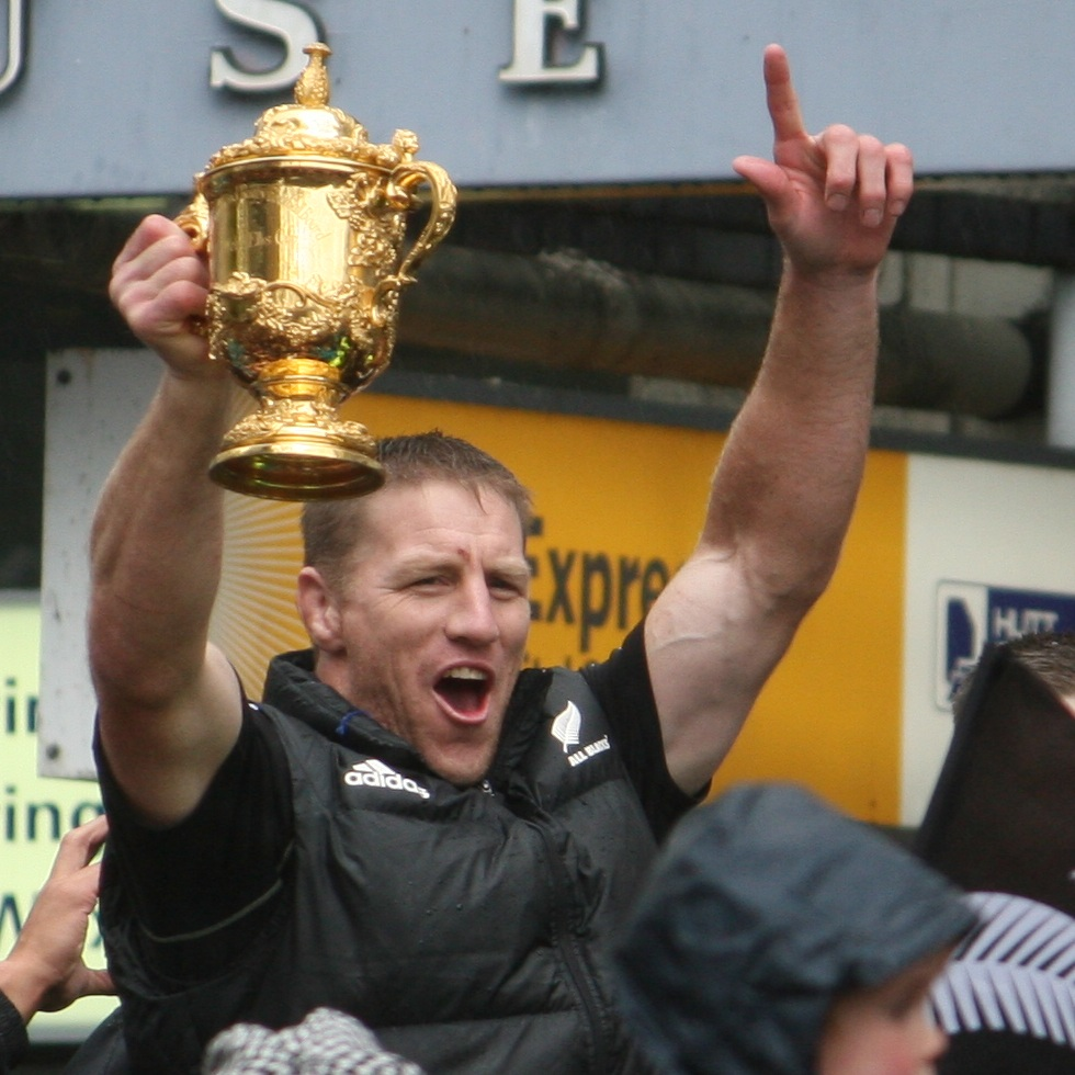 New Zealand rugby union player Brad Thorn at the Wellington Rugby World Cup 2011 Victory Parade